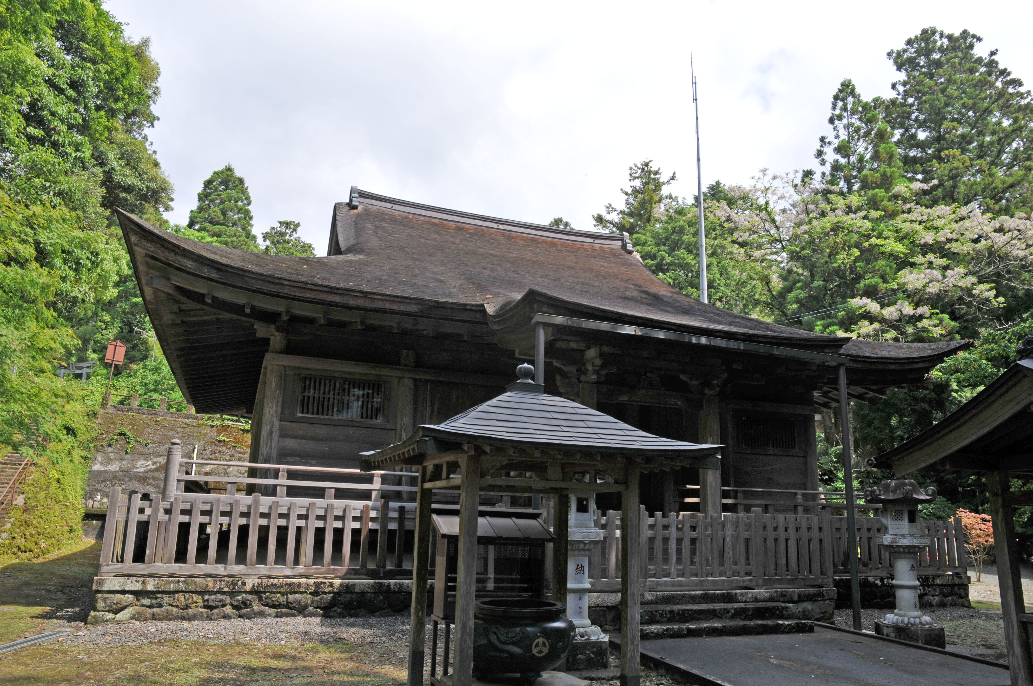 Yakushi-dō(Japanese National Treasure), Buraku-ji